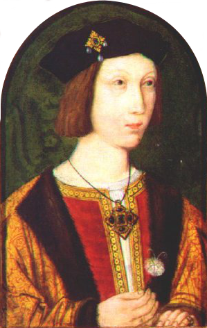 Depicted person: Arthur Tudor (1486-1502), Prince of Wales was the first son of King Henry VII of England and Elizabeth of York. This portrait is regarded as the only surviving contemporary portrait of the sitter.